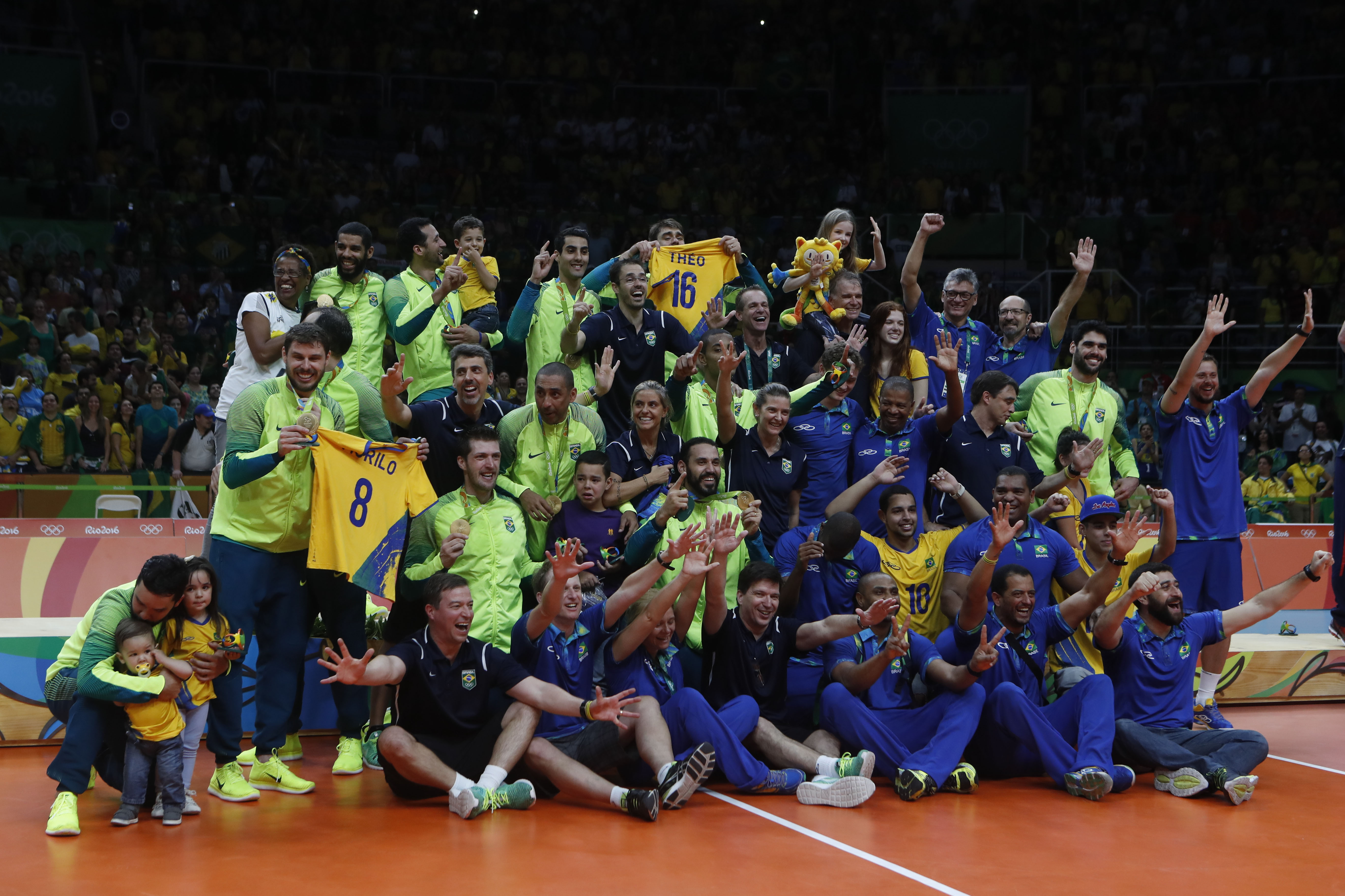 Rio de Janeiro - Seleção brasileira de vôlei ganha medalha de ouro ao vencer a Itália na final dos Jogos Olímpicos Rio 2016 no Maracanãzinho (Fernando Frazão/Agência Brasil)